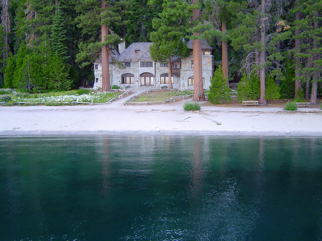 vista completa